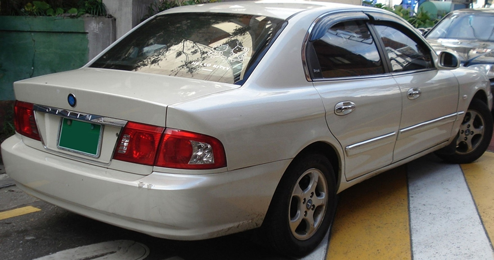 Kia Optima Regal